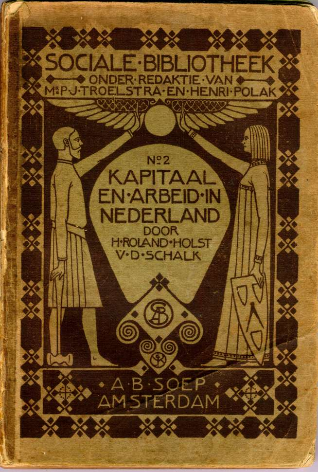 book cover of first edition of Kapitaal en Arbeid in Nederland by Henriette Roland Holst; Publ. A.B. Soep, Amsterdam 1902